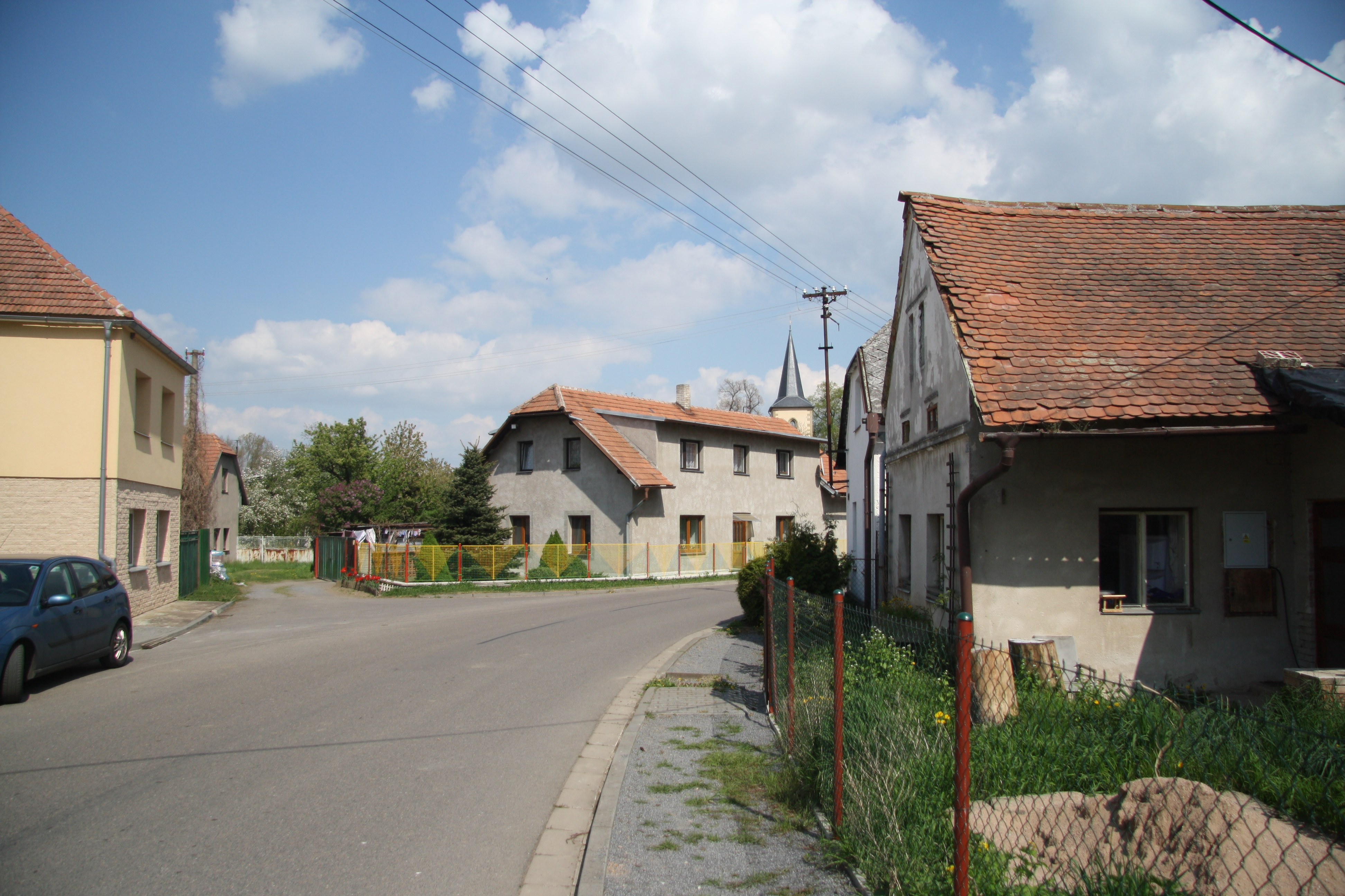 Center of Bítovany, Chrudim District.